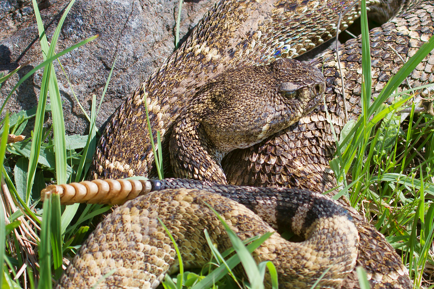 Western Diamondback Rattlesnake